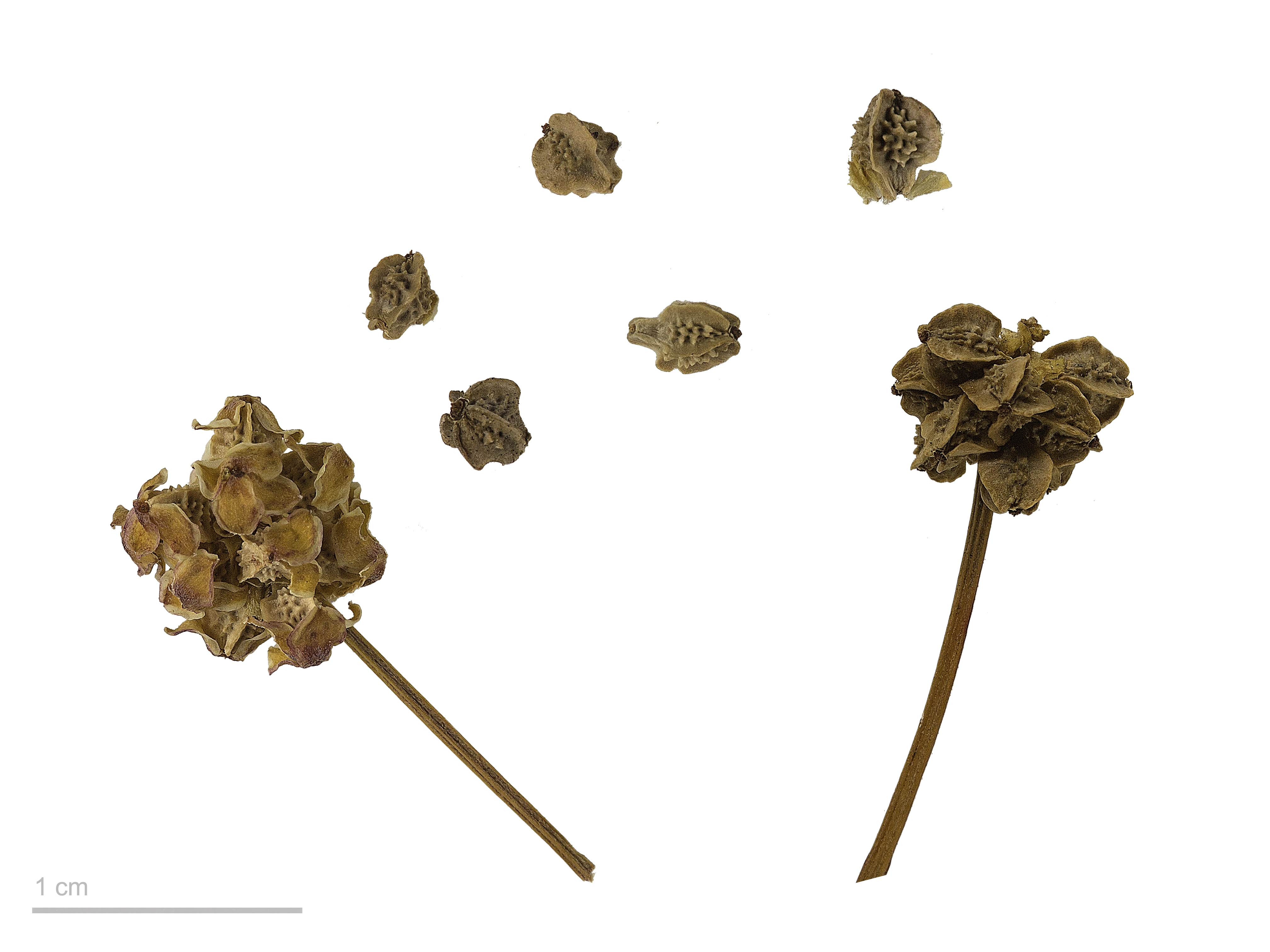 Salad burnet , fruits and seeds